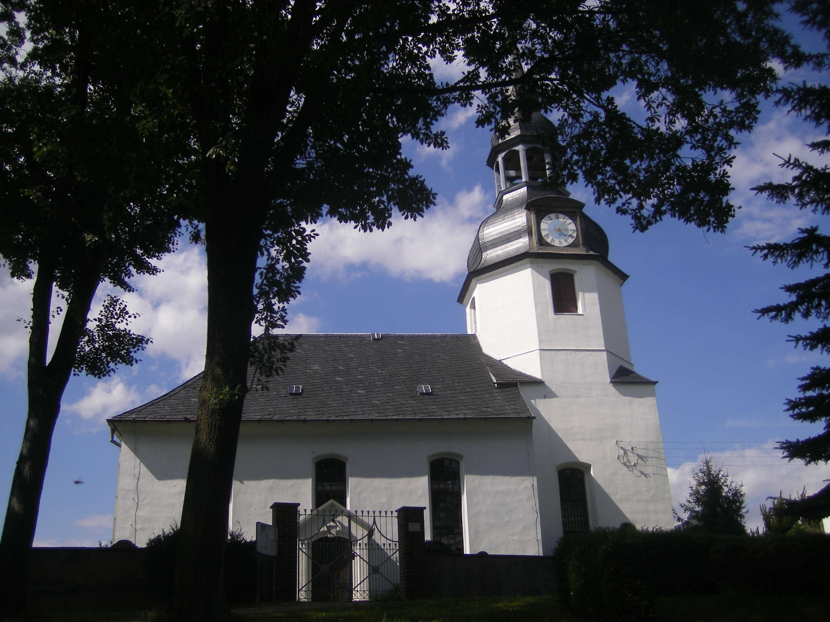 Church in Jonaswalde near Gera/Thuringia (Germany)